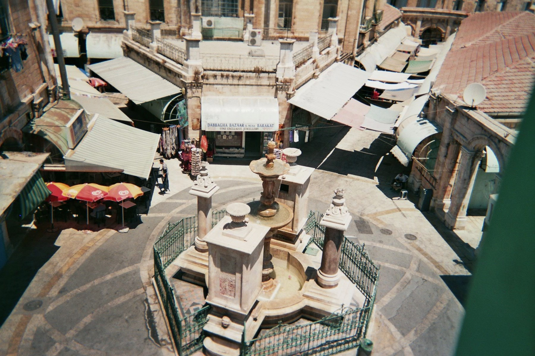 Old Jerusalem Christian Quarter Muristan Fountain